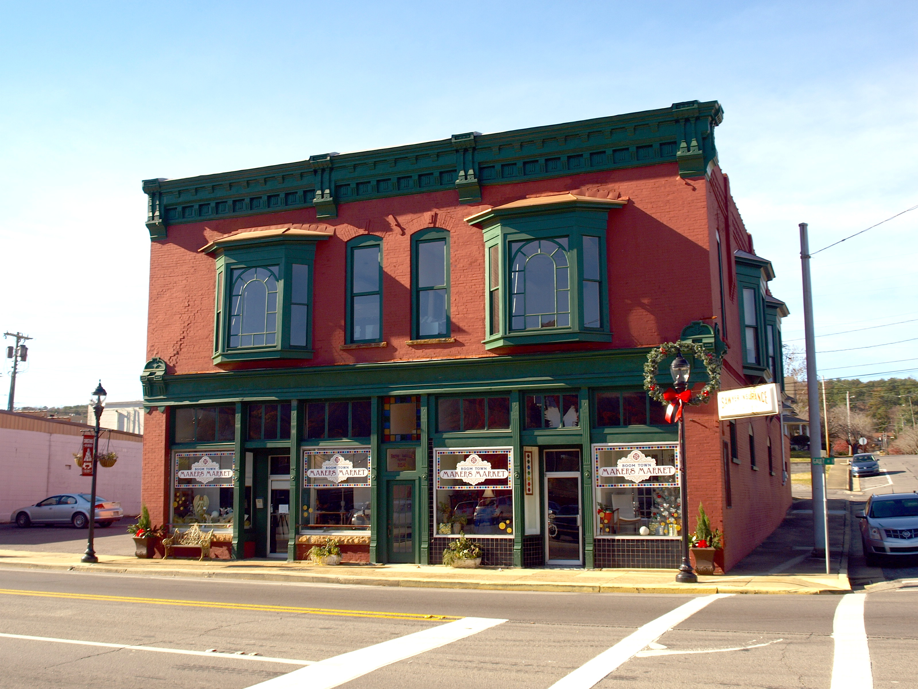 The Sawyer Building in Fort Payne, Alabama, listed on the Alabama Register of Landmarks and Heritage